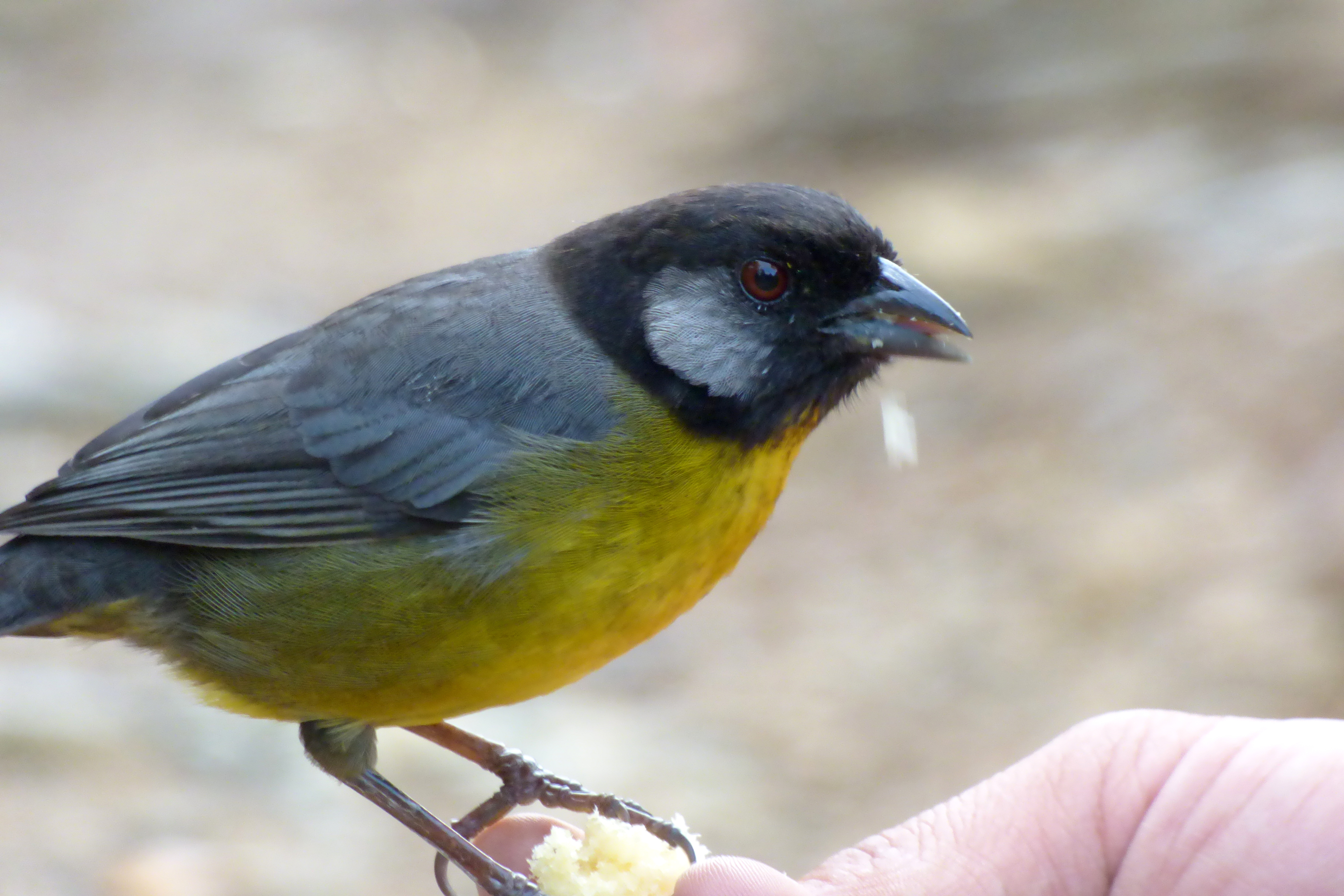 Santa Marta Brush Finch (Atlapetes melanocephalus)